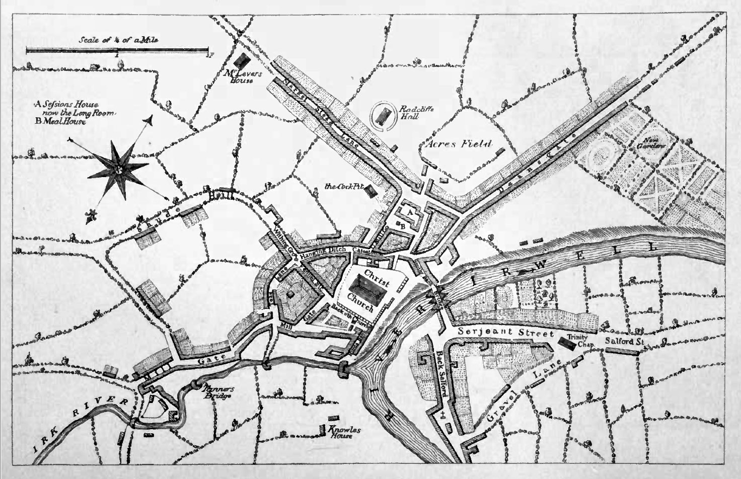 A map of Manchester from about 1650, from "Views of Old Manchester"